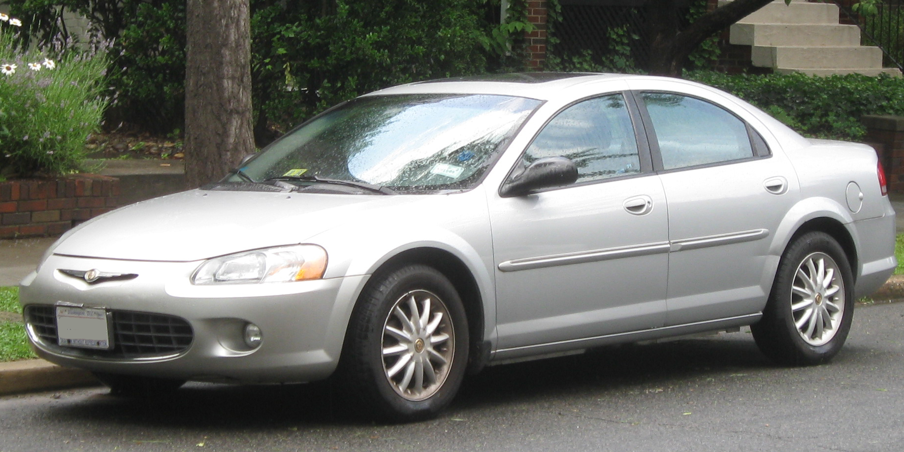 2001-2003 Chrysler Sebring photographed in Washington, D.C., USA.